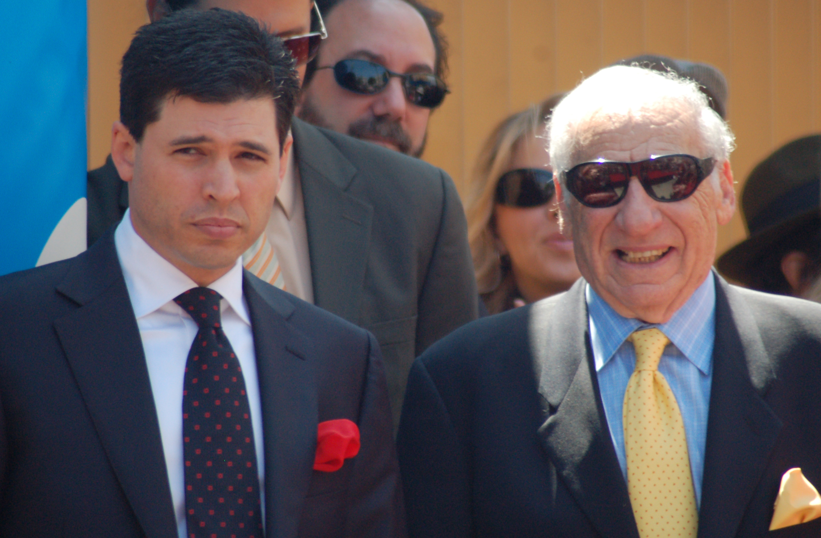 Max and Mel Brooks attending a ceremony for Mel to receive a star on the Hollywood Walk of Fame.